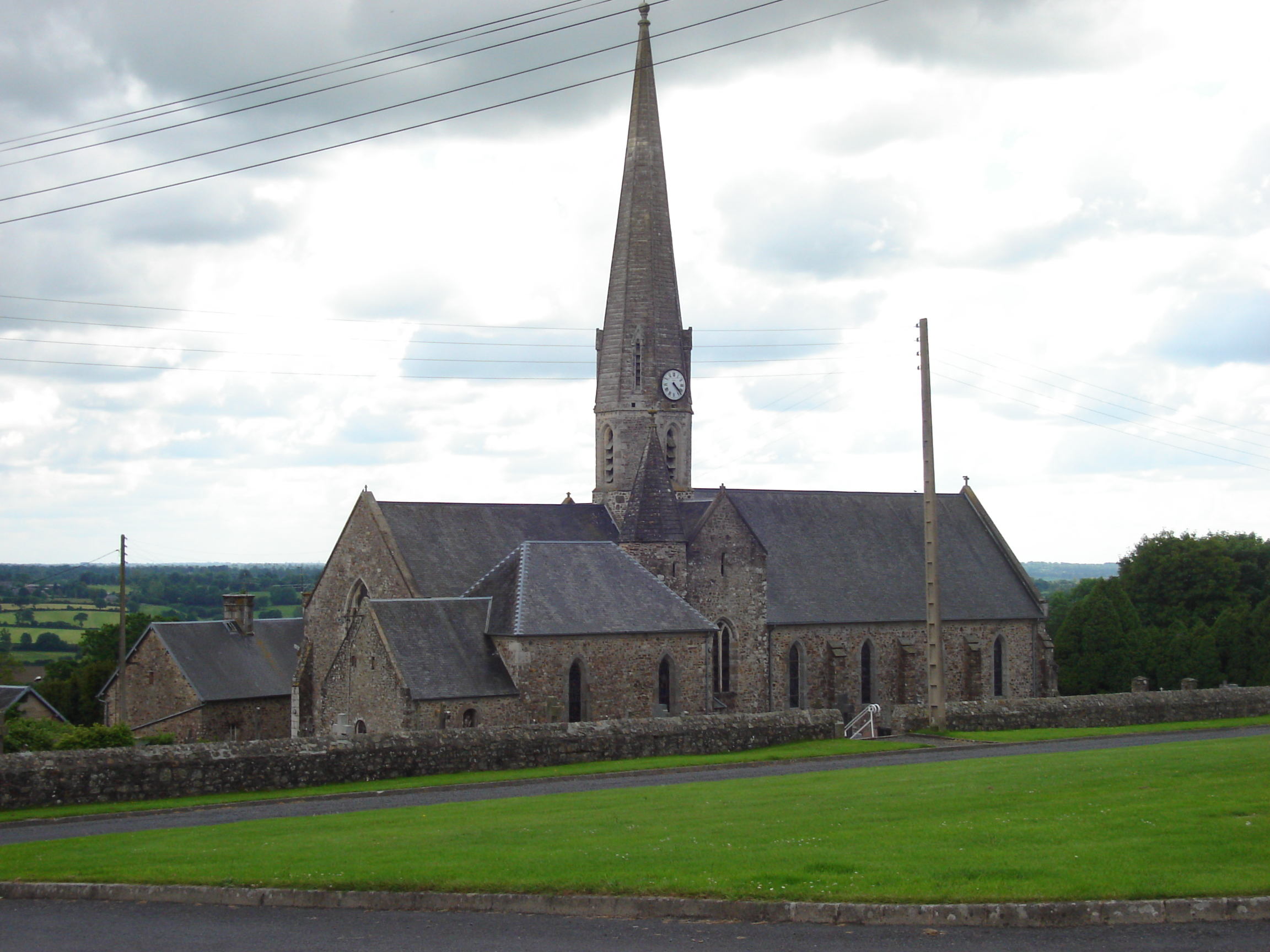 This is a picture of the church of Montpinchon (A French Village).